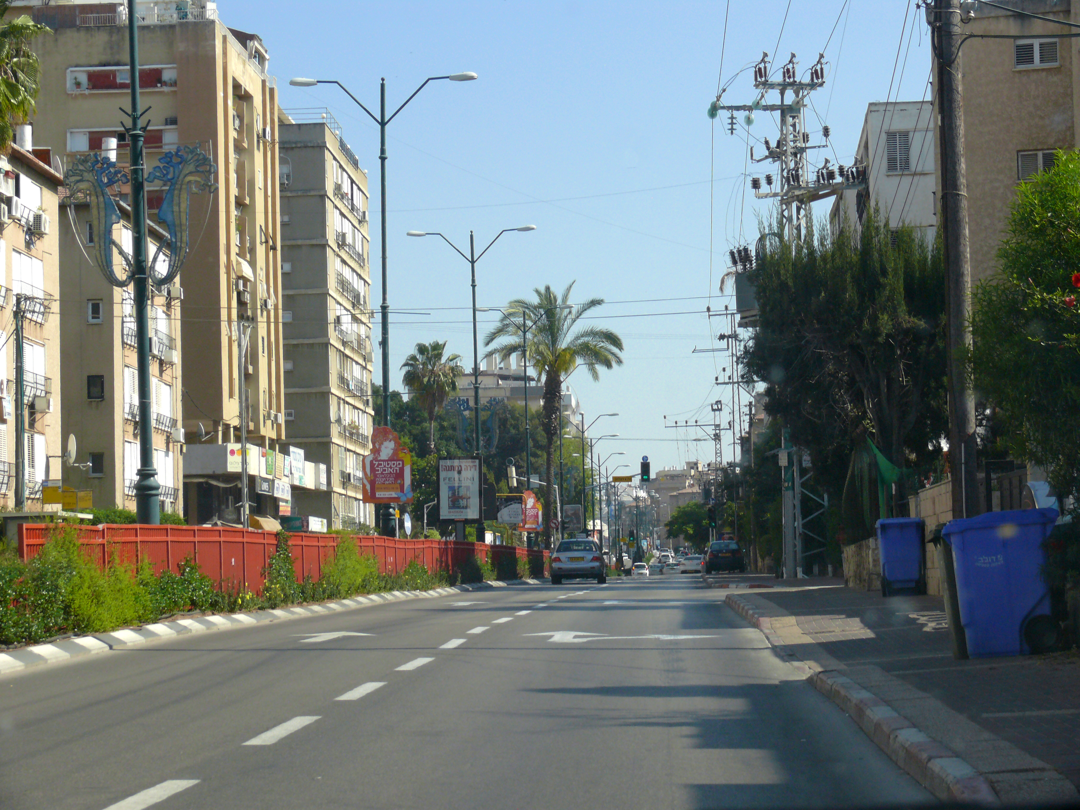 Jabotinsky Boulevard, Rishon LeZion, Israel